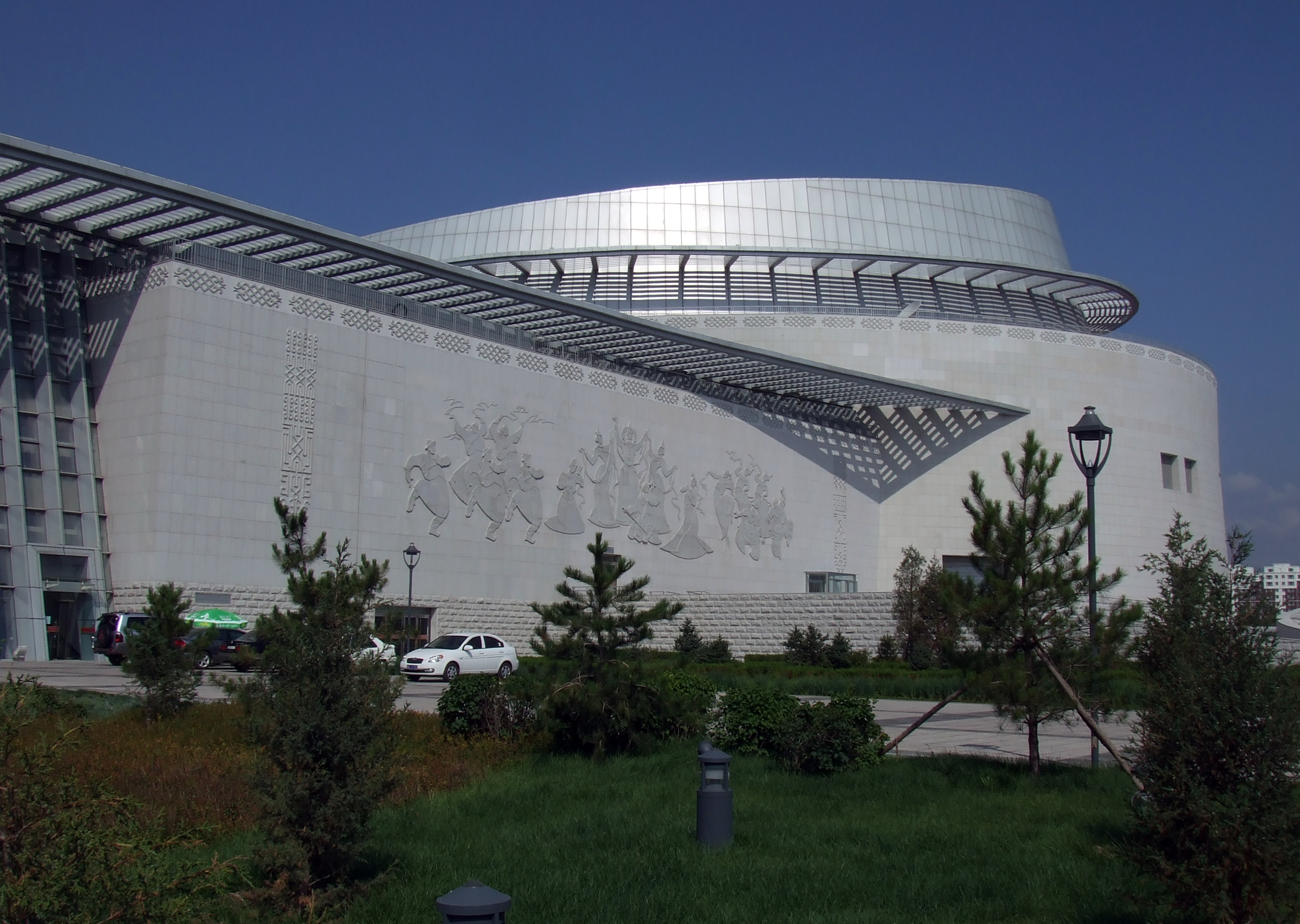 The Inner Mogolian Theater in Hohhot, Inner Mongolia, China